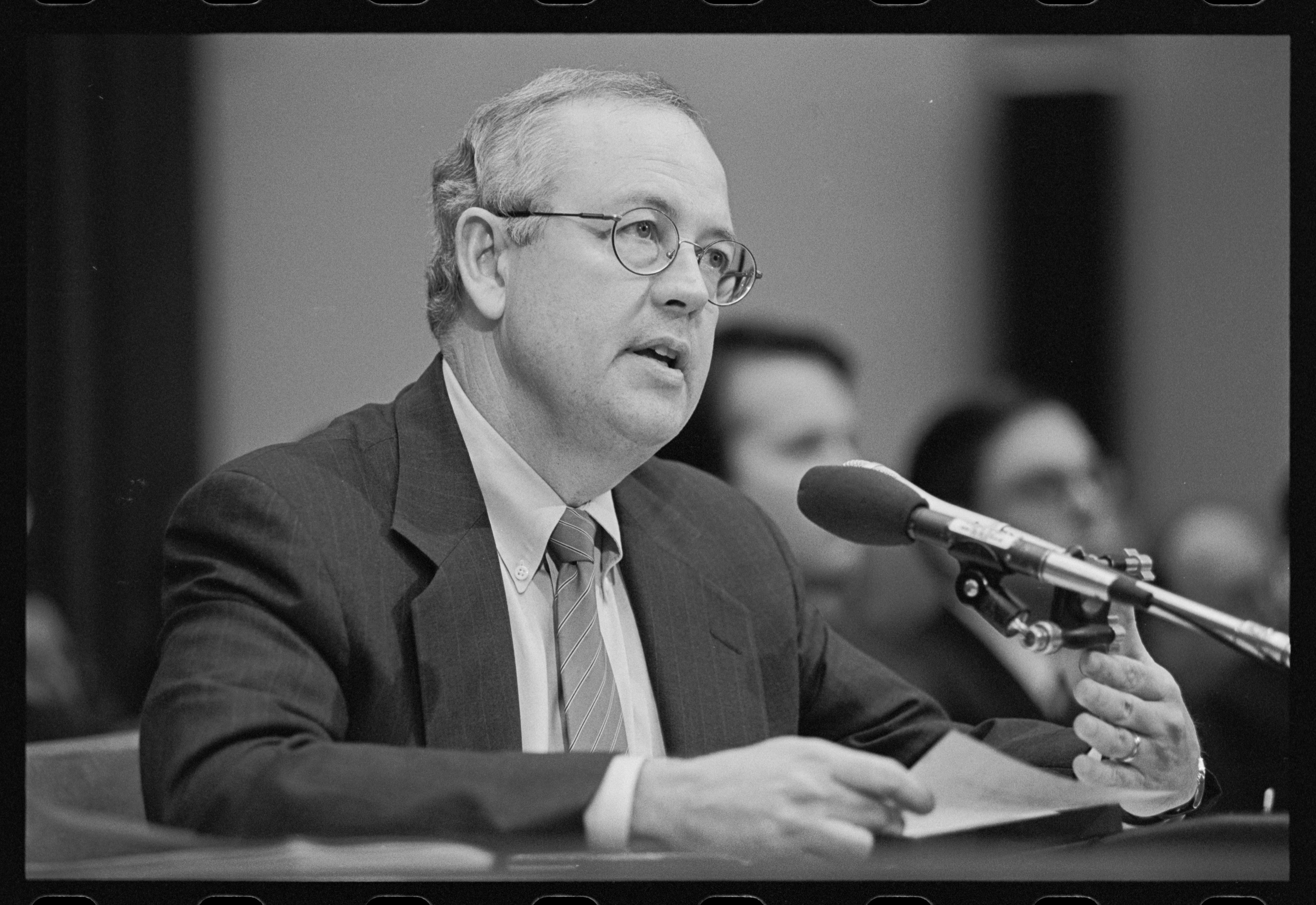 Independent counsel Ken Starr testifying before the House Judiciary Committee about his investigation of President Clinton's relationship with Monica Lewinsky